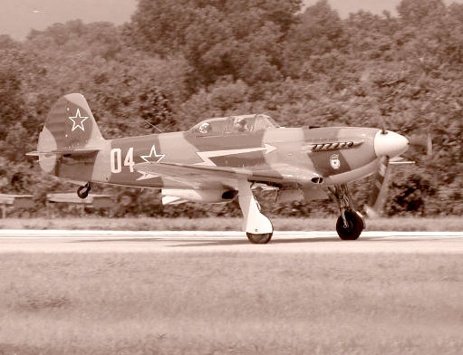 WWII era Soviet Yak-9 on take off at the Mid Atlantic Air Museum WWII Weekend Air Show, 2002.